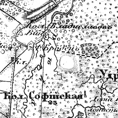 Brodets on the map "Военно-топографическая карта Российской Империи" (known as "Schubert's map"), XIX 5, 1866-1887 (issued in 1911).